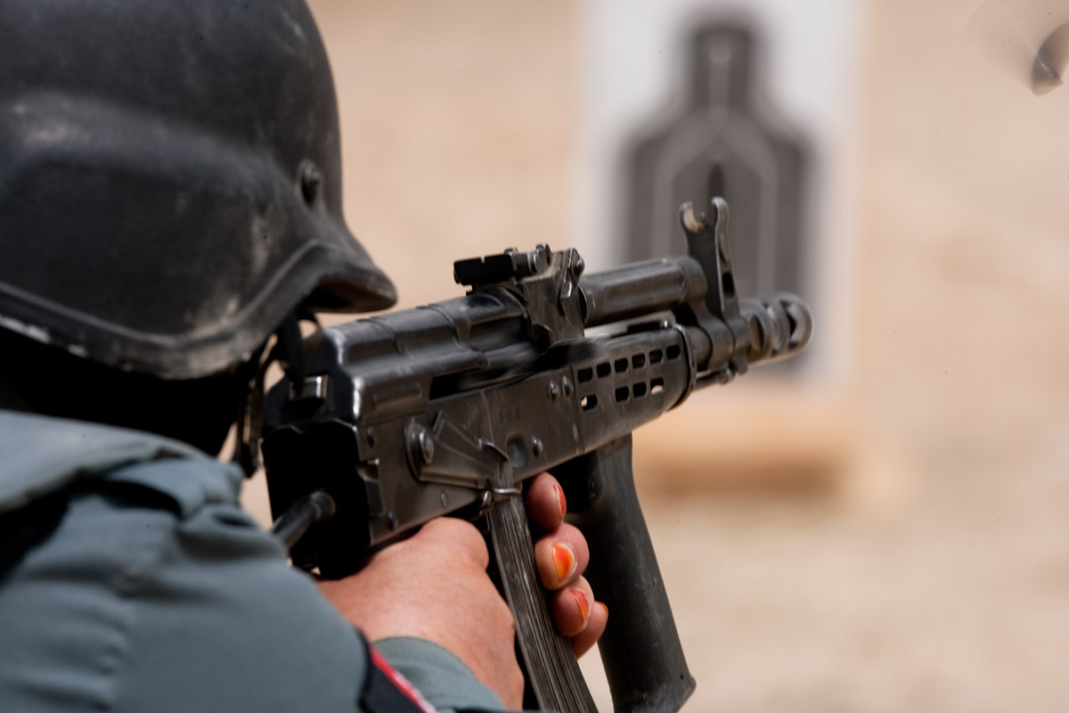 Kabul, Afghanistan (July 13, 2010) Female ANP Cadets have a six-week training course during which two weeks are dedicated to marksmanship. These cadets have range time at Kabul Military Training Center with a course of fire that starts at 50 meters and then closes in on the target. The female course of fire is the same as the male cadets. The cadets perform well scoring above the 70 percent hit rate required to pass the course. (Photo by Mass Communications Specialist 1st Class Christopher Mobley)